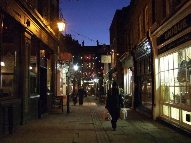 Homeward bound: Flask Walk after dark Flask Walk remains a well-used pedestrian route from the busy High Street, with its shops, bus stops and tube station, to the quiet residential area behind.